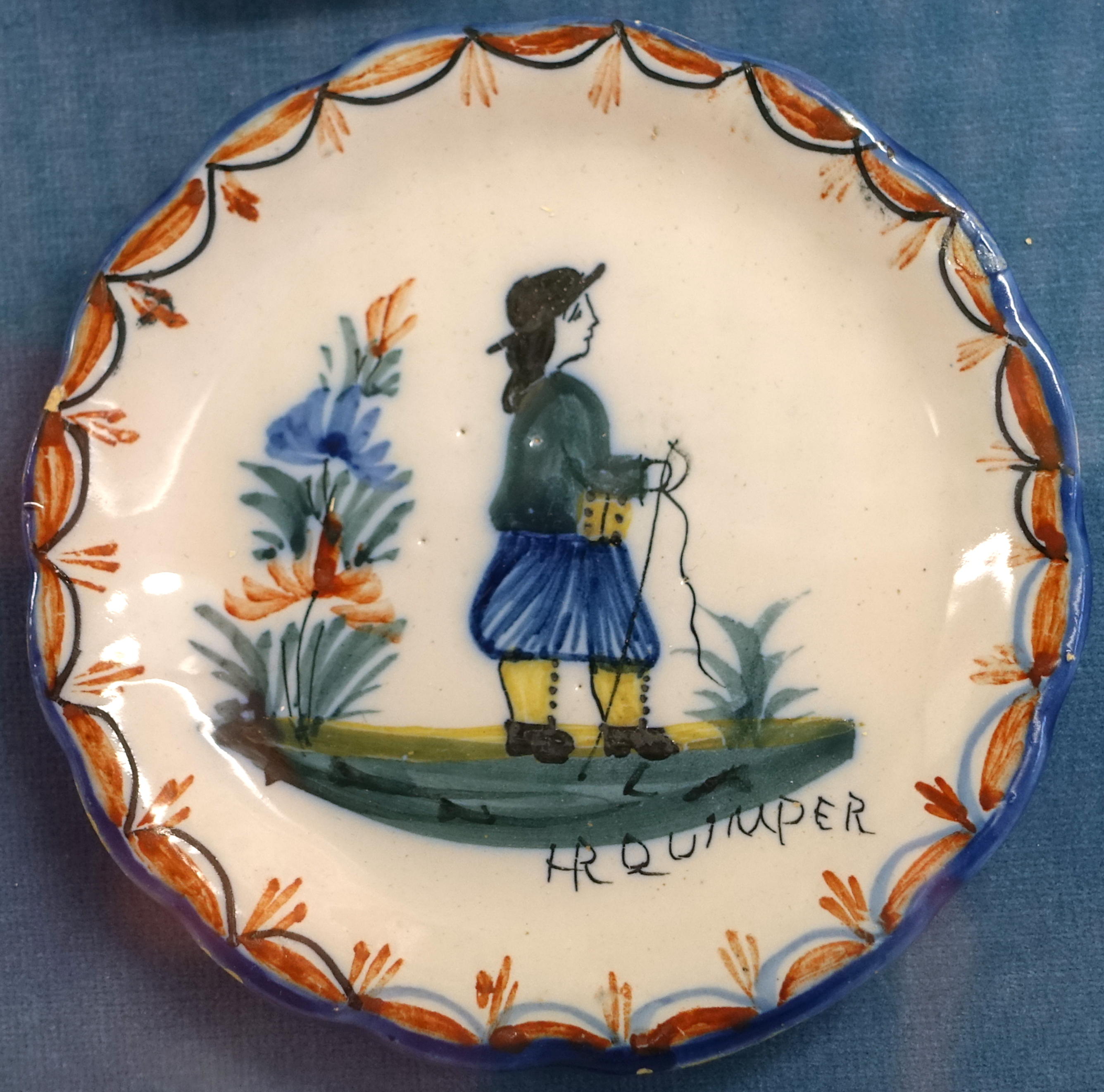 Object within Vizcaya Museum and Gardens - Miami, Florida, USA.